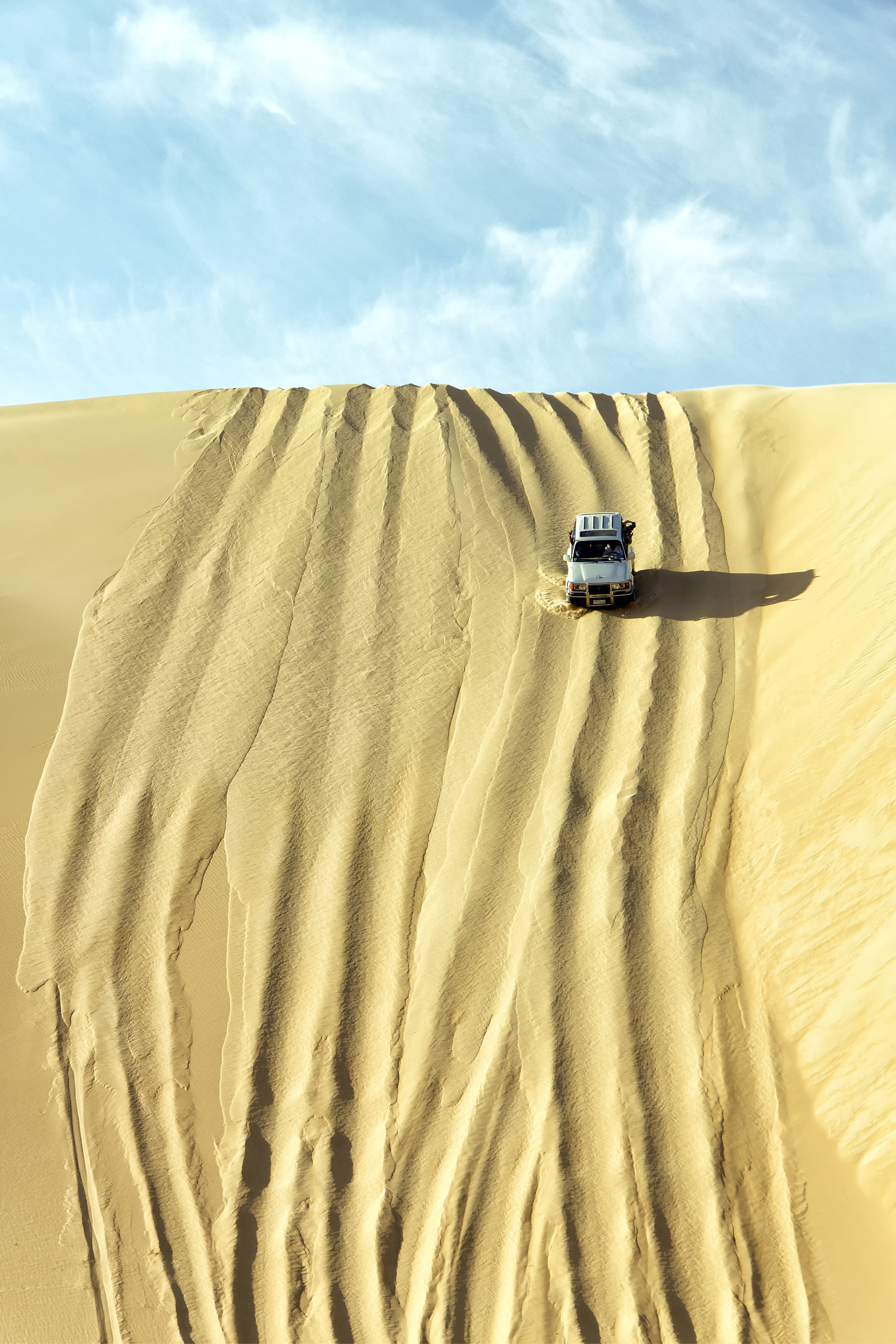 Safari in Siwa desert